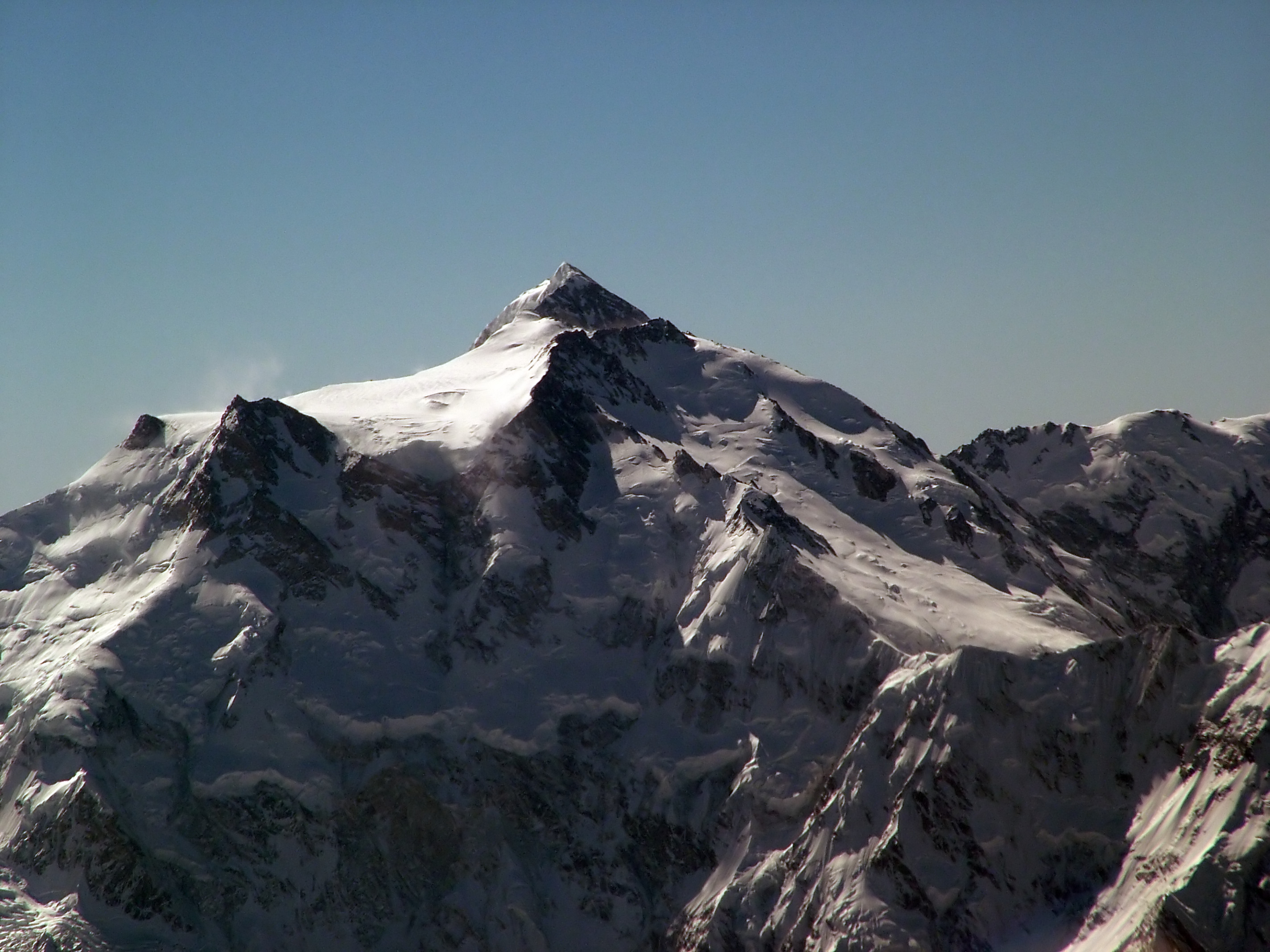 Upper part of Rakhiot Face (north face) of Nanga Parbat (8125 m), "Silberzacken" (left) and "Silberplateau" (the big snow-field), Mazeno ridge on the right, Diamir Face (west face) underneath